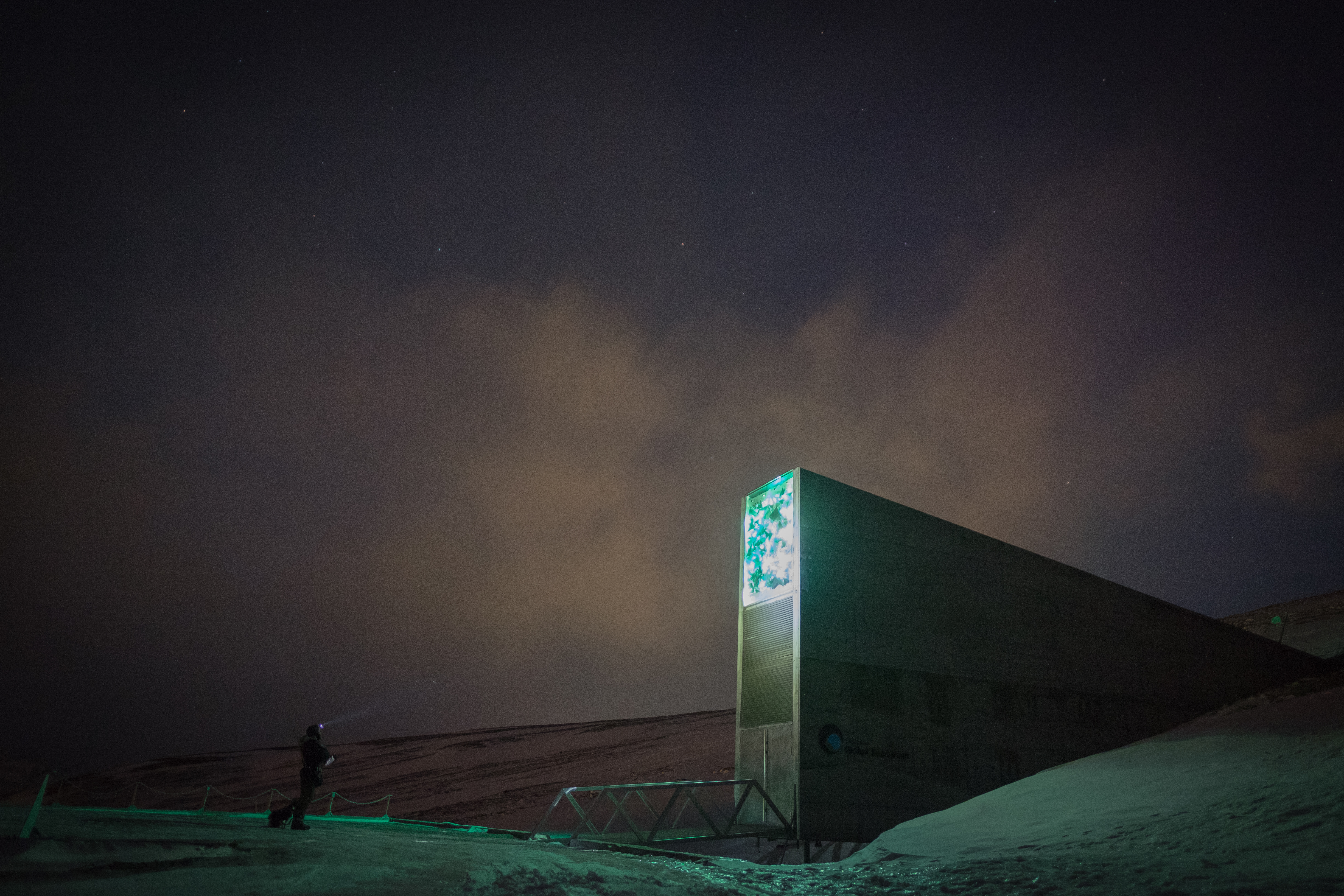 Dusk at the Svalbard Global Seed Vault.